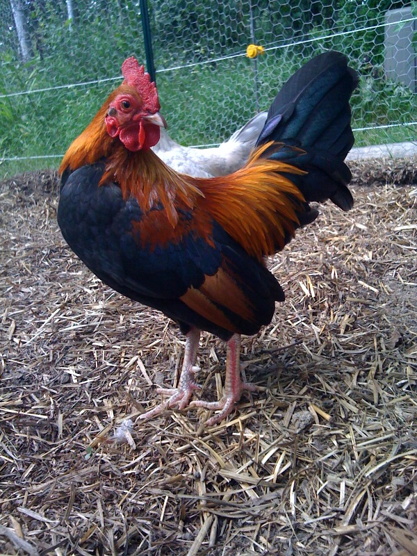 A bantam rooster (breed unknown)